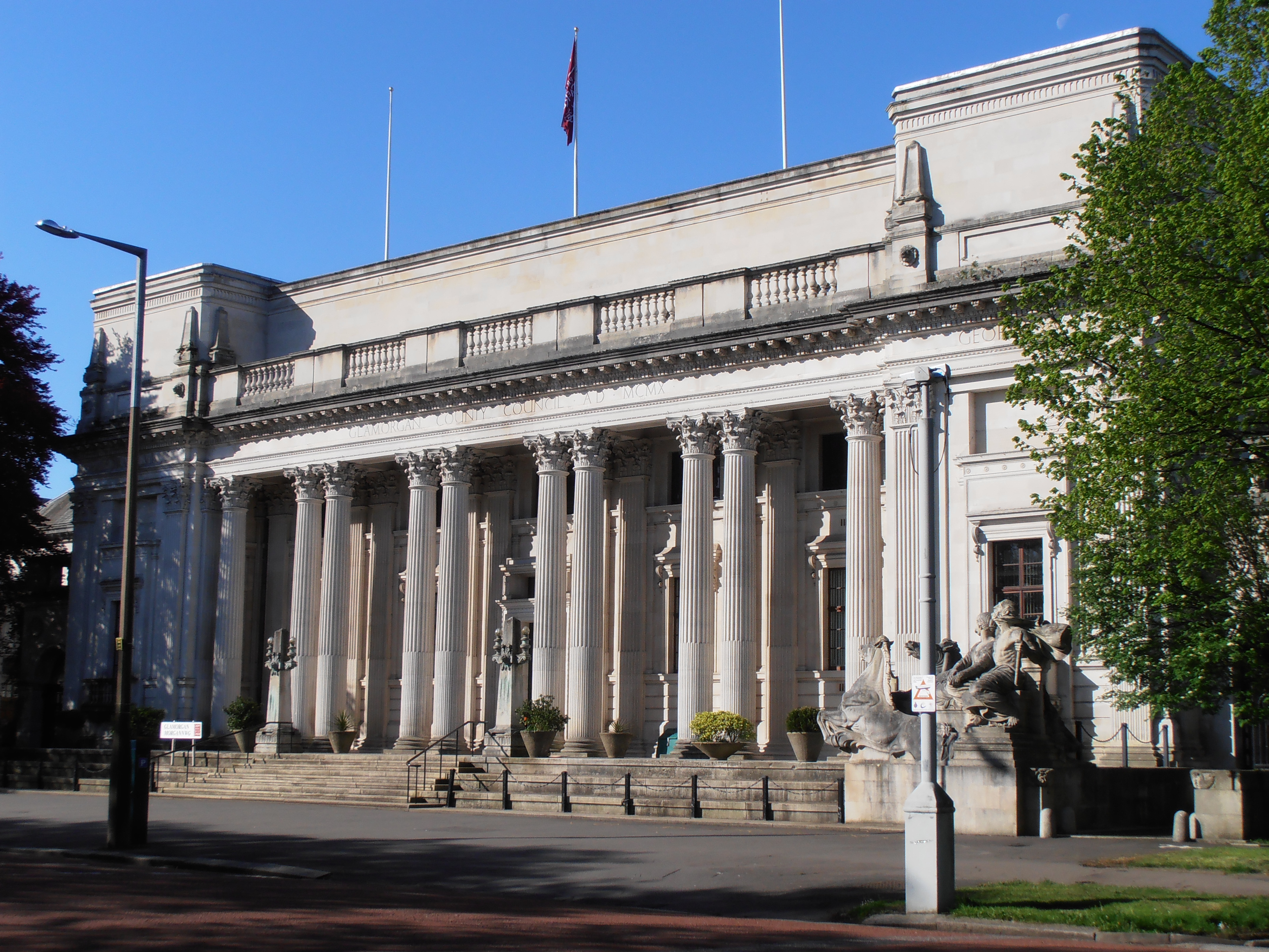 Glamorgan Building (Cardiff University; formerly Glamorgan County Hall), Cathays Park, Cardiff